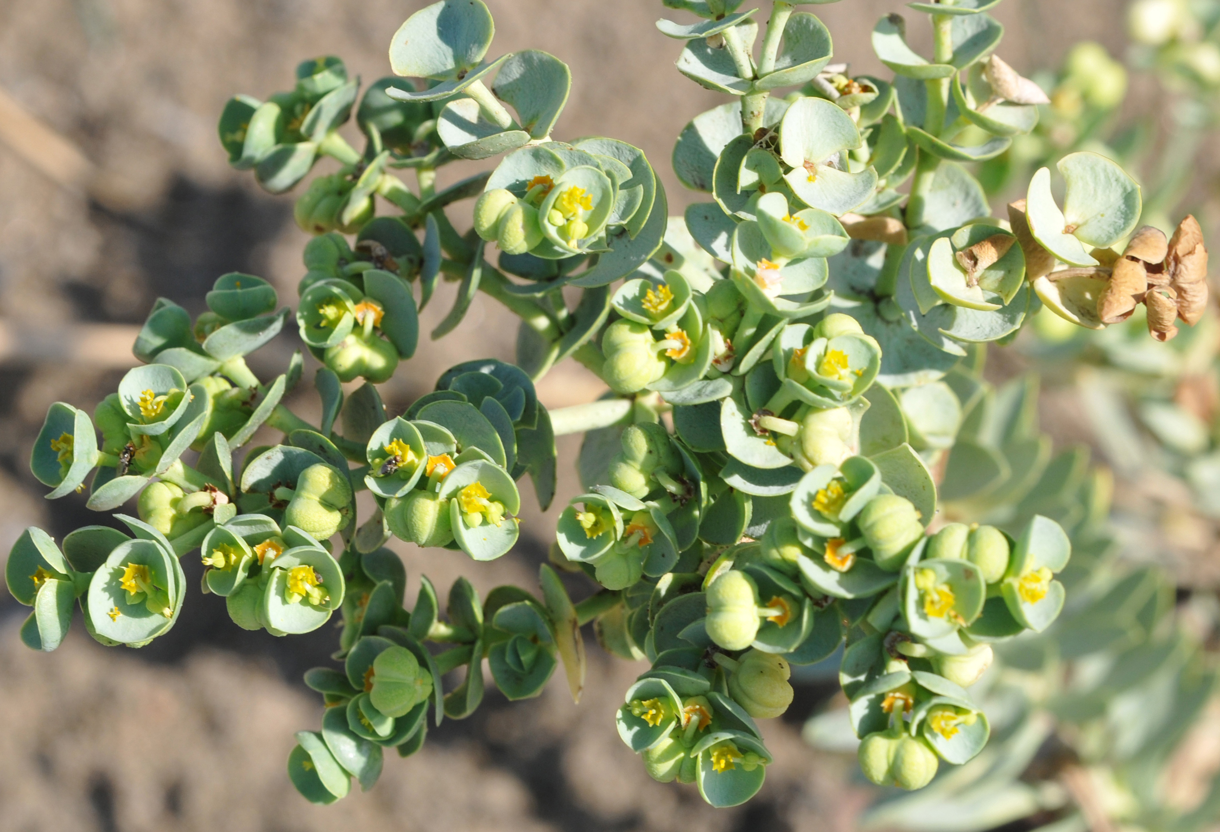 Flowers and seedpods of Sea Spurge (Euphorbia paralias). Karataş, Adana - Turkey.